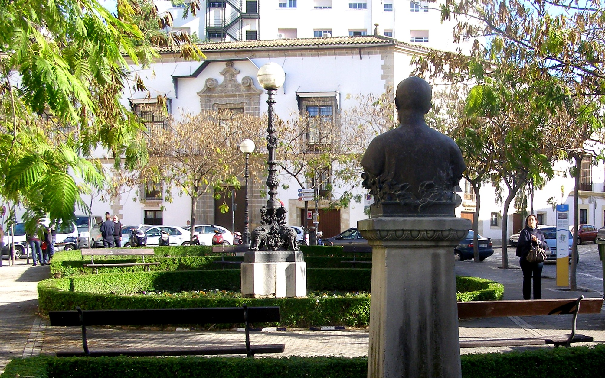 Arroyo Square, Jerez